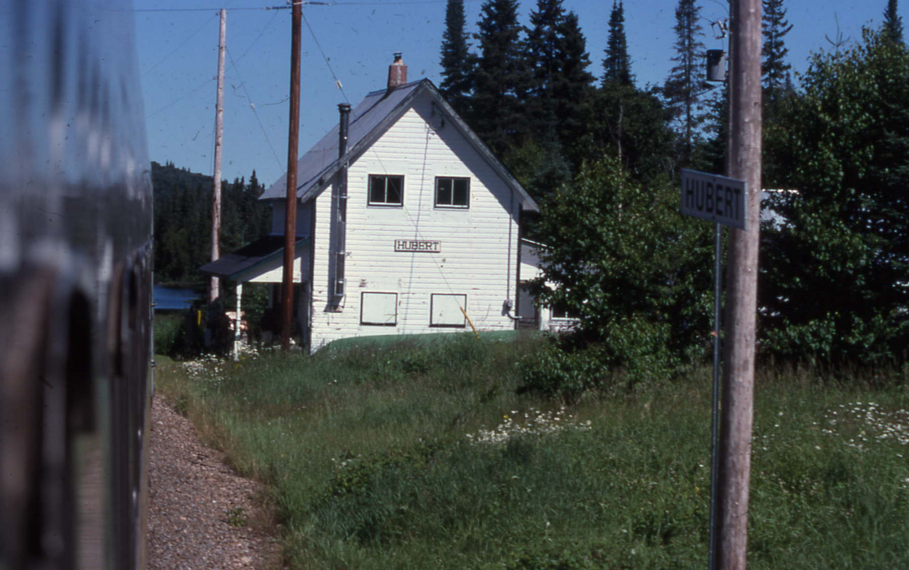 Algoma Central Railway tour train to Agawa Canyon passing Hubert station